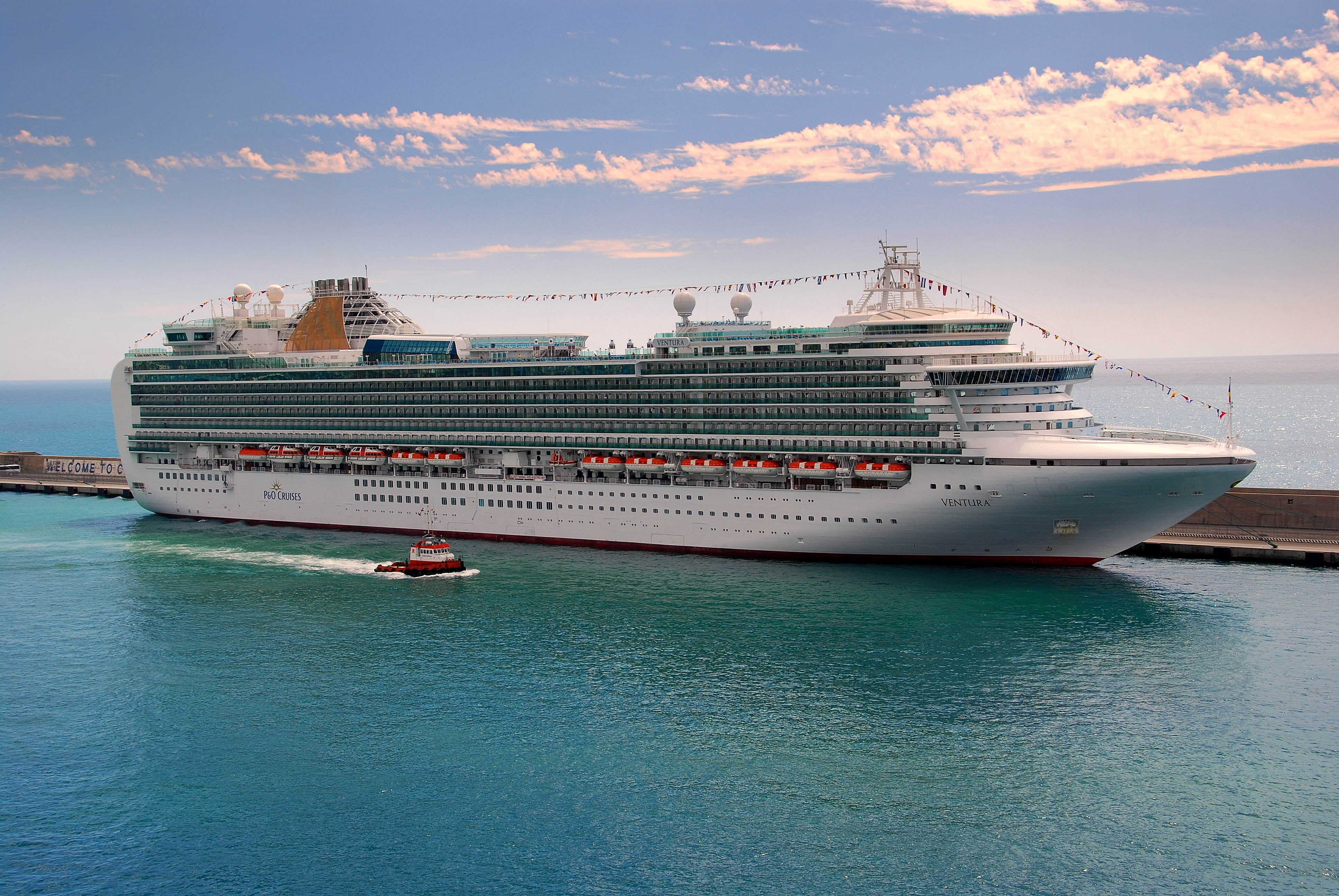 Ventura Cruise Ship, P&O Cruises, seen in Port of Civitavecchia, Rome, Italy